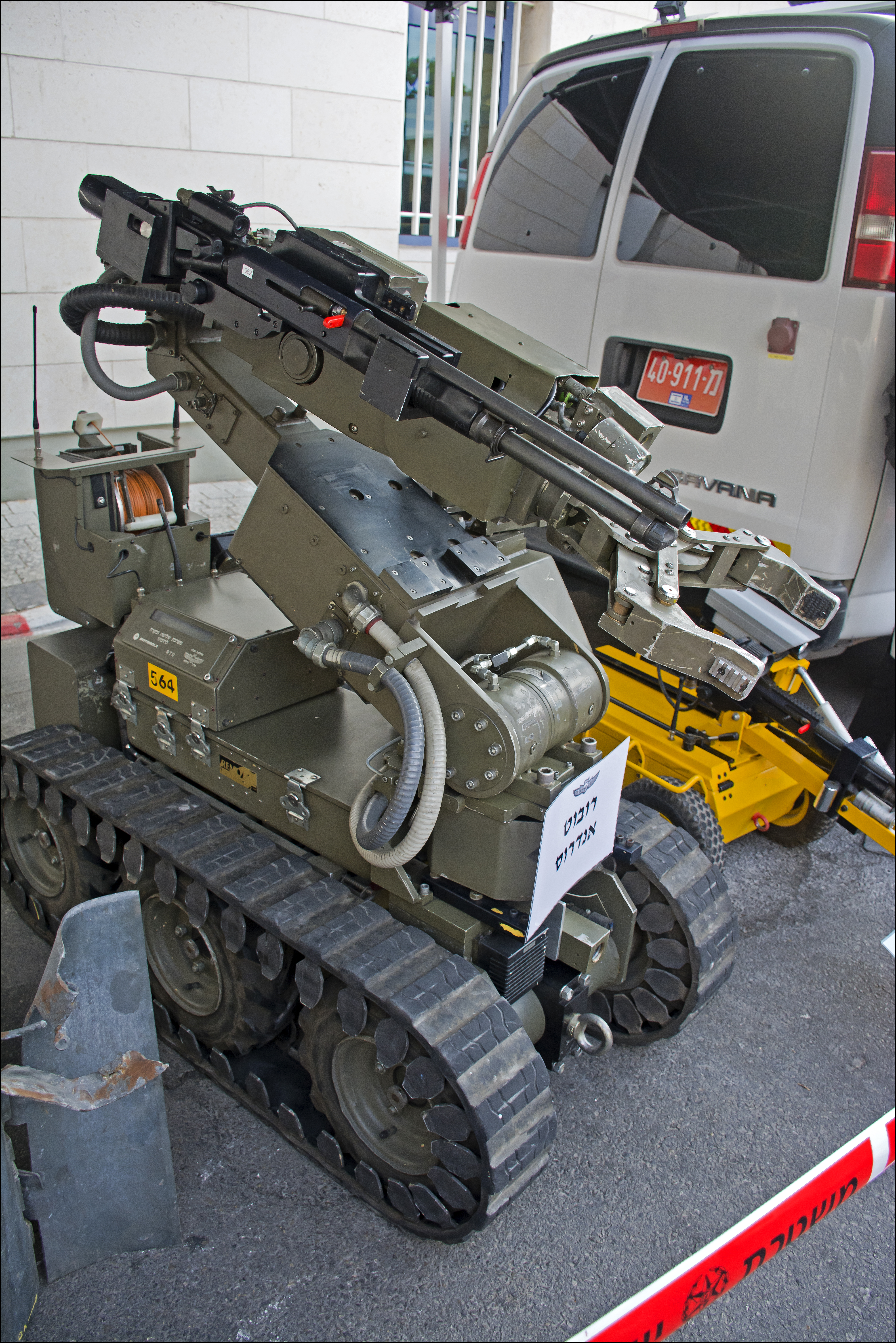 Bomb Disposal Unit, Israeli Police Open Day in Rishon LeZion